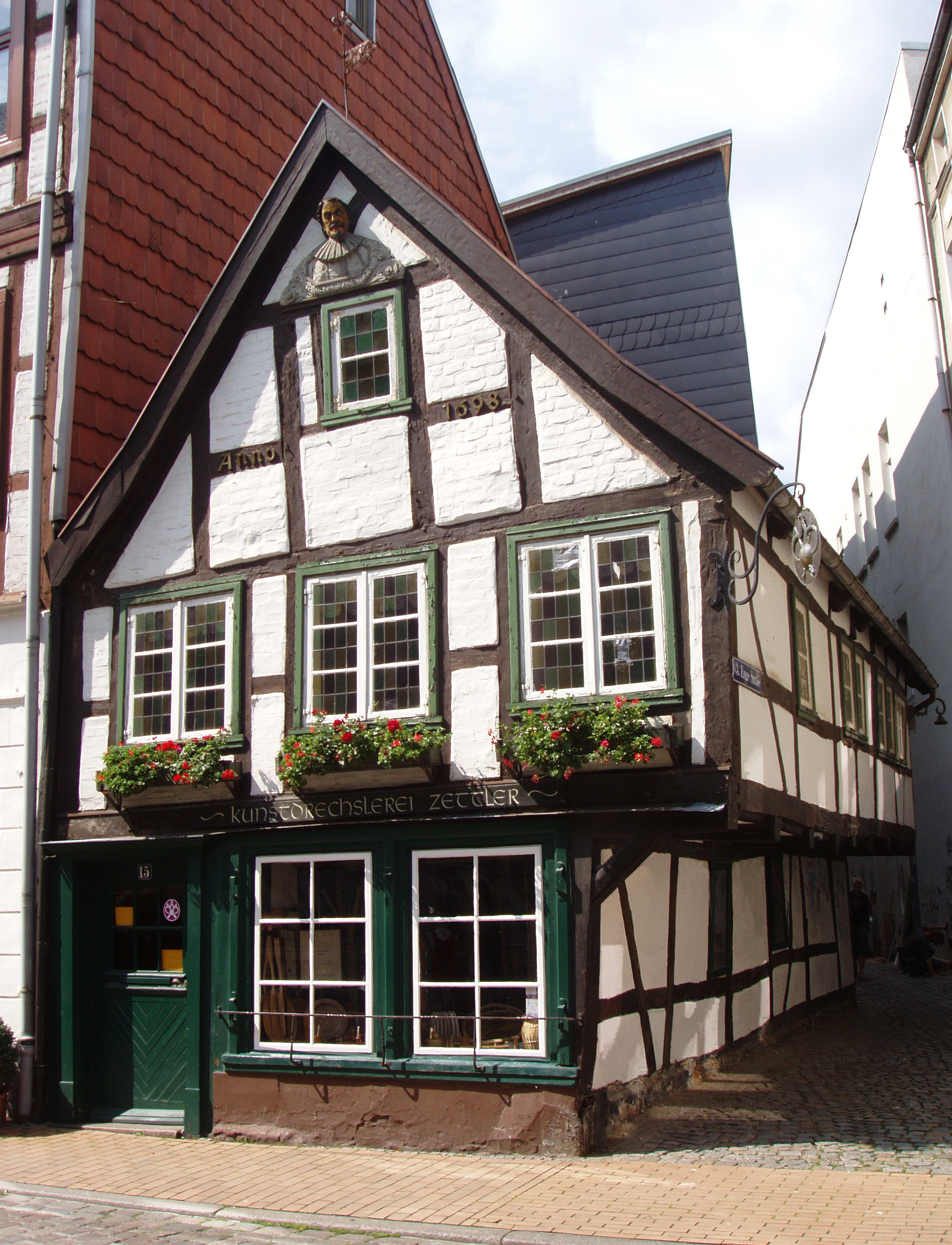 Timber framed house in the Buschstraße in Schwerin (Germany)